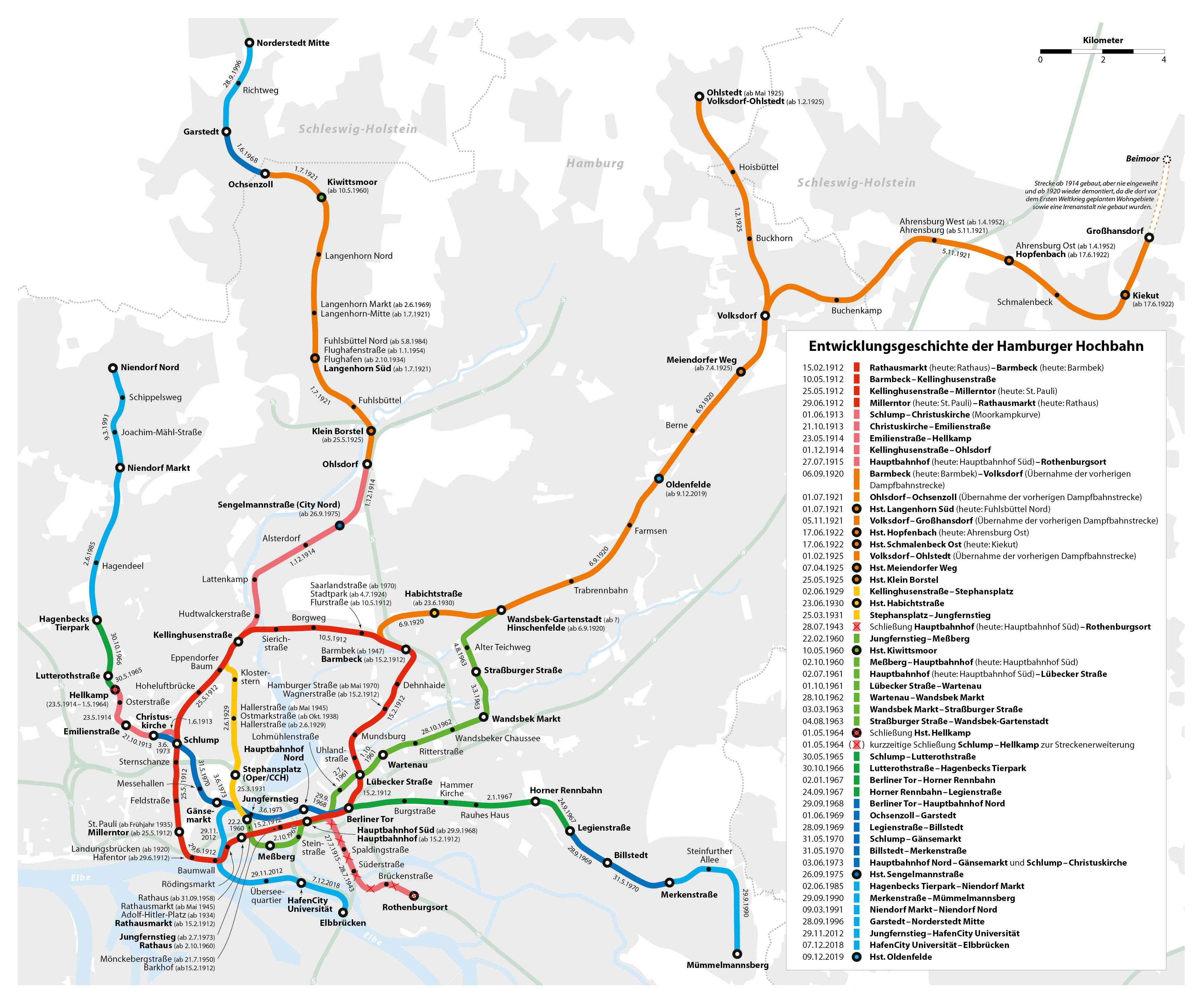 Map showing the development of the Hochbahn Hamburg 1912 - 1997